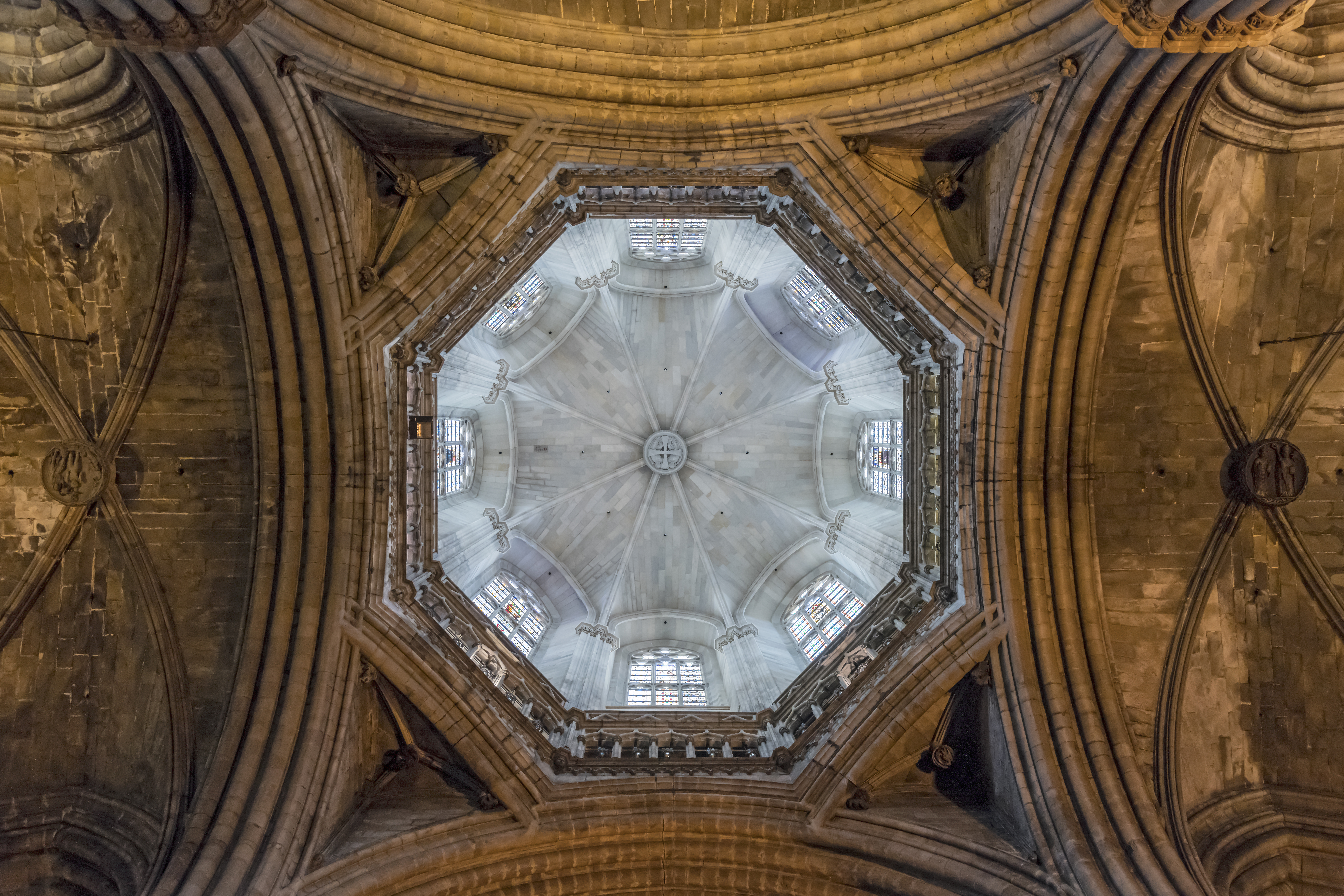 The Cathedral of the Holy Cross and Saint Eulalia in Barcelona. The ceiling at the entrance and the view of the vault finished in 1905.